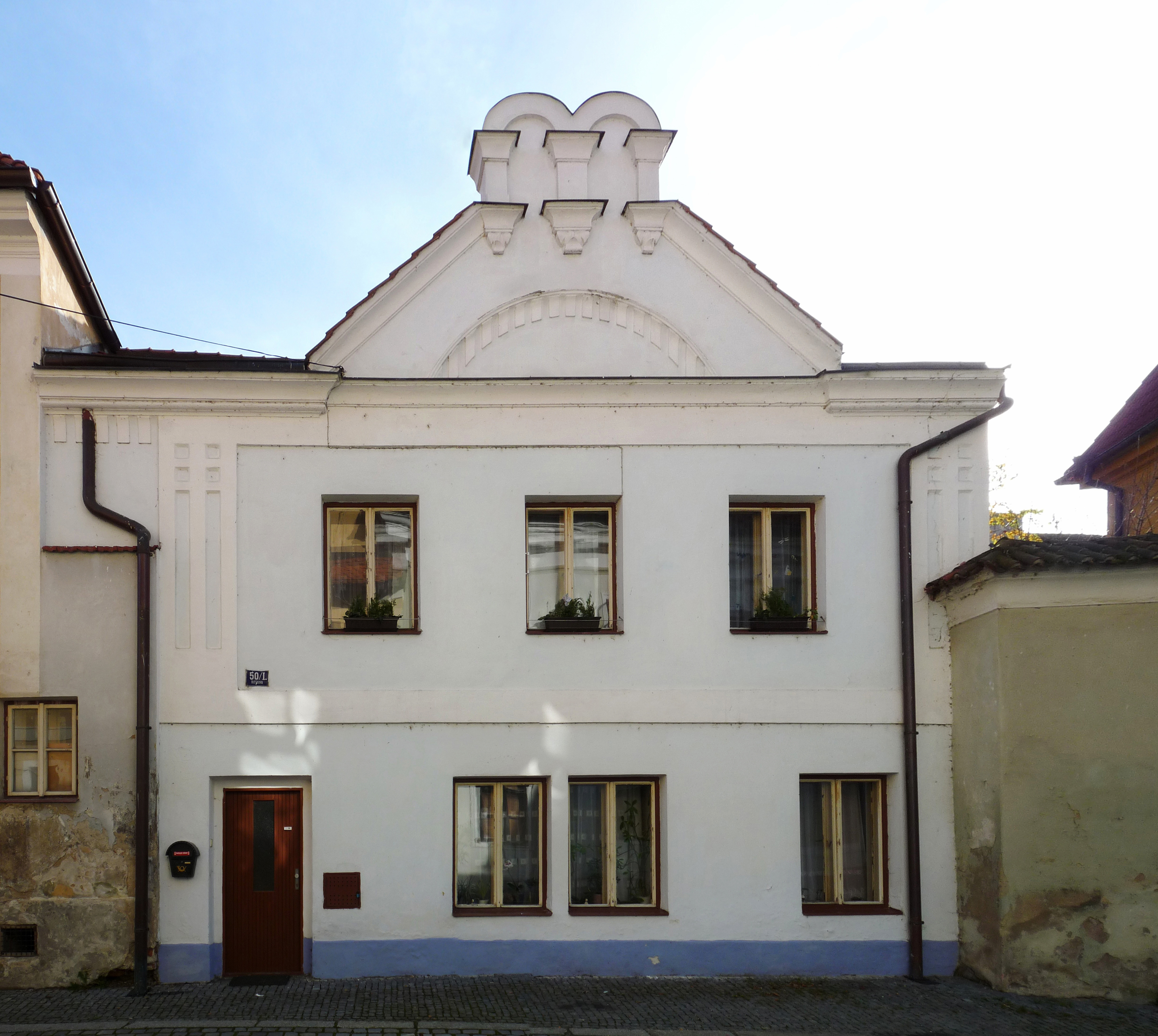 Former synagogue in the town of Třeboň, Jindřichův Hradec District, South Bohemian Region, Czech Republic.